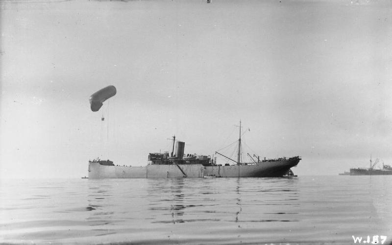 The kite balloon ship HMS Canning with her observation balloon anchored off Salonika with kite balloon aloft, November 1915.D&W Henderson of Glasgow built the ship in 1896 as a cargo ship for Lamport & Holt Line. She was a transport ship in the Second Boer War 1899–1900. The Admiralty bought her in 1915 and commissioned her as a kite balloon ship. In 1917 she became a depot ship at Scapa Flow and in 1919 she was returned to Lamport & Holt. In 1920 Mrs G Visalia bought her, renamed her Okeanos and registered her in Piraeus. In 1924 Ditta Luigi Pittaluga Vapori bought her, renamed her Arenzano and registered her in Genoa. She was scrapped in Genoa in 1924.